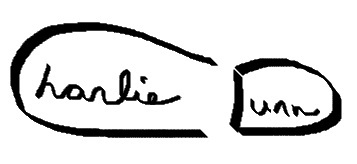 example of my great grandpa's signature